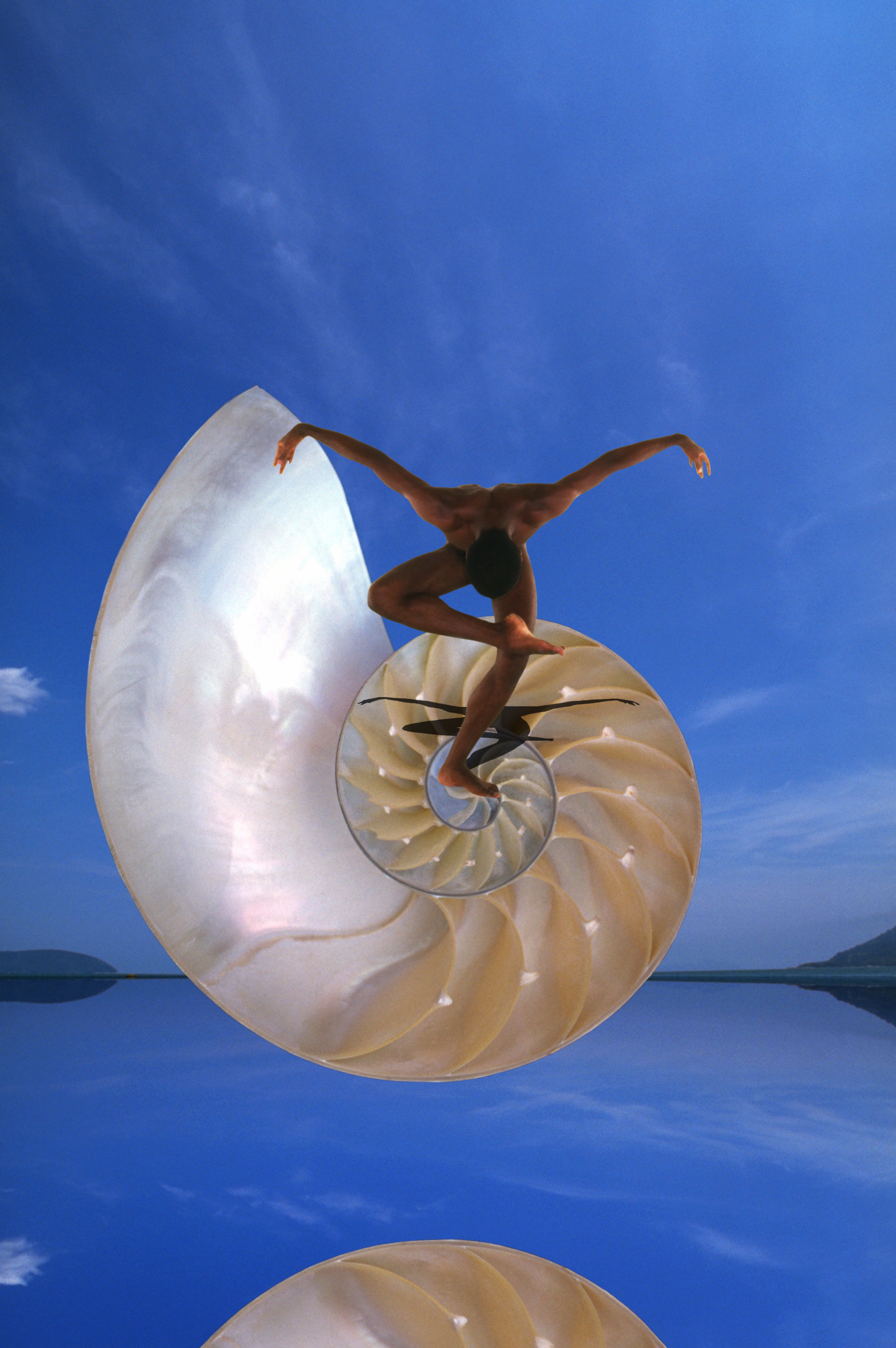 Bowing in Art 1996. Special guest as model in the photo, Rui Moreira Dancer, choreographer and crop researcher. As an artist he has recognized brands for his participation in Grupo Corpo (MG), Cisne Negro (SP), Balé of the City of São Paulo, Cie. Azanie (France), Cia. SeráQuê? (MG), Rui Moreira Cia. De Danças (MG). Lead the ONG SeráQué? Cultural institution with the seal of Culture Point that among other actions, develops the project with a conceptual focus in traditional and contemporary black dances, titled Contemporary Dance Terreiro Network. Currently composes a group of articulators that participates in the National Politics of the Arts of MinC / Funarte.